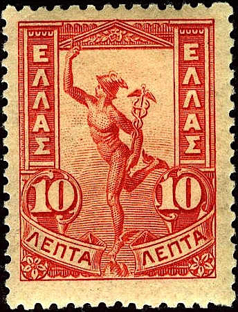 Hermès ailé (1901) - Type b